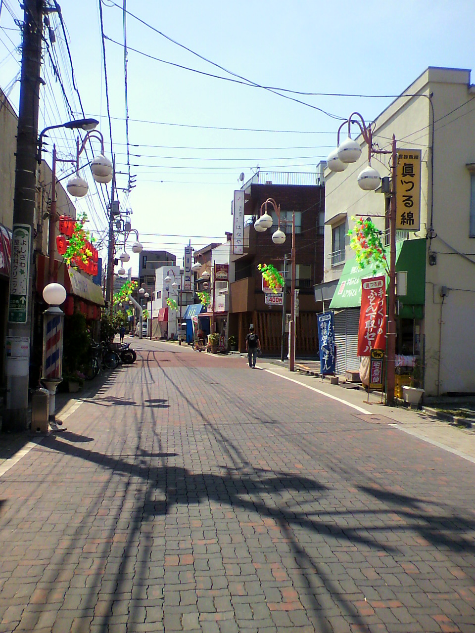 This is the Aoi Heiwa Street, which is located in Aoi, Adachi, Tokyo, Japan.